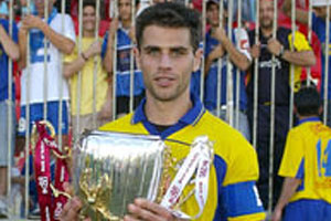 Picture of Carlo Mamo.